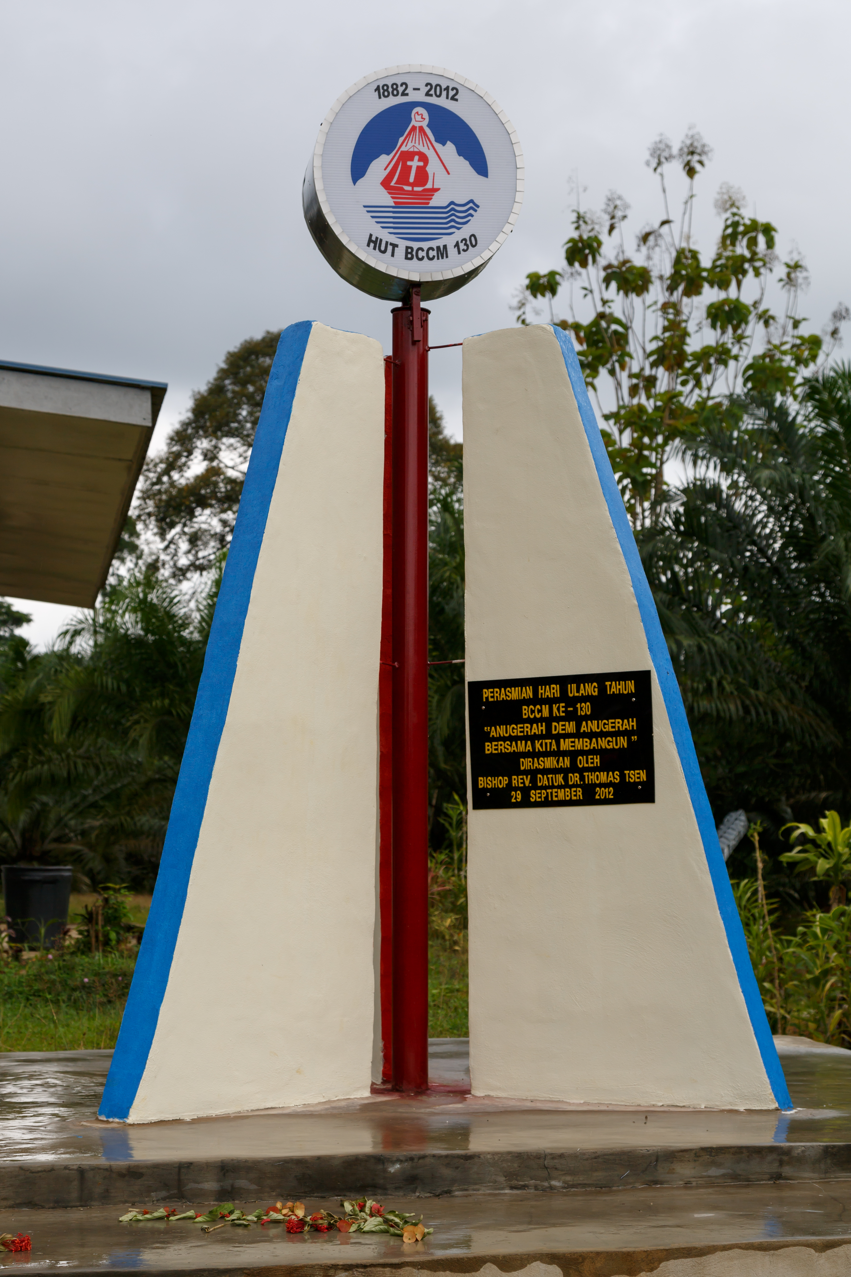 Telupid, Sabah, Malaysia: Memorial for 130 years of Gereja Basel Malaysia / Basel Church in Malaysia. The memorial at the Basel Church Murok reads: Anniversary of the opening of the BCCM to -130 "The award for the award we develop together" inaugurated by Rev. Bishop. Datuk Dr. Thomas Tsen 29 September 2012